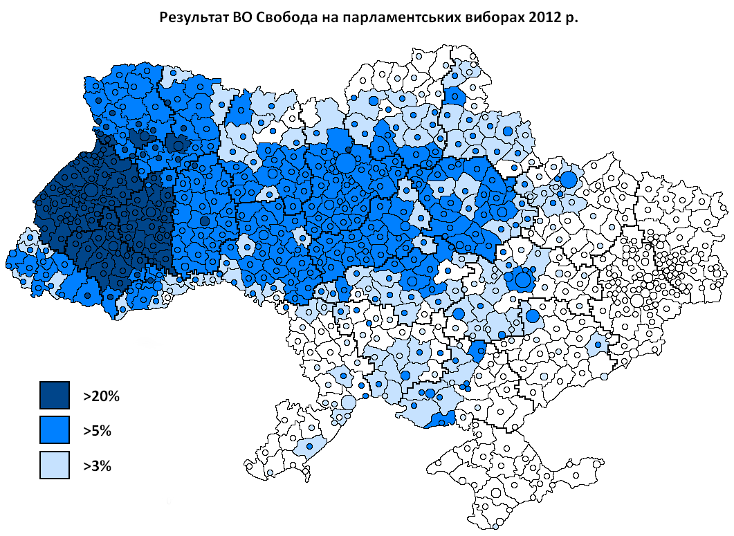 Raions and cities with over 5% votes for Svoboda party on Ukrainian parliamentary elections 2012